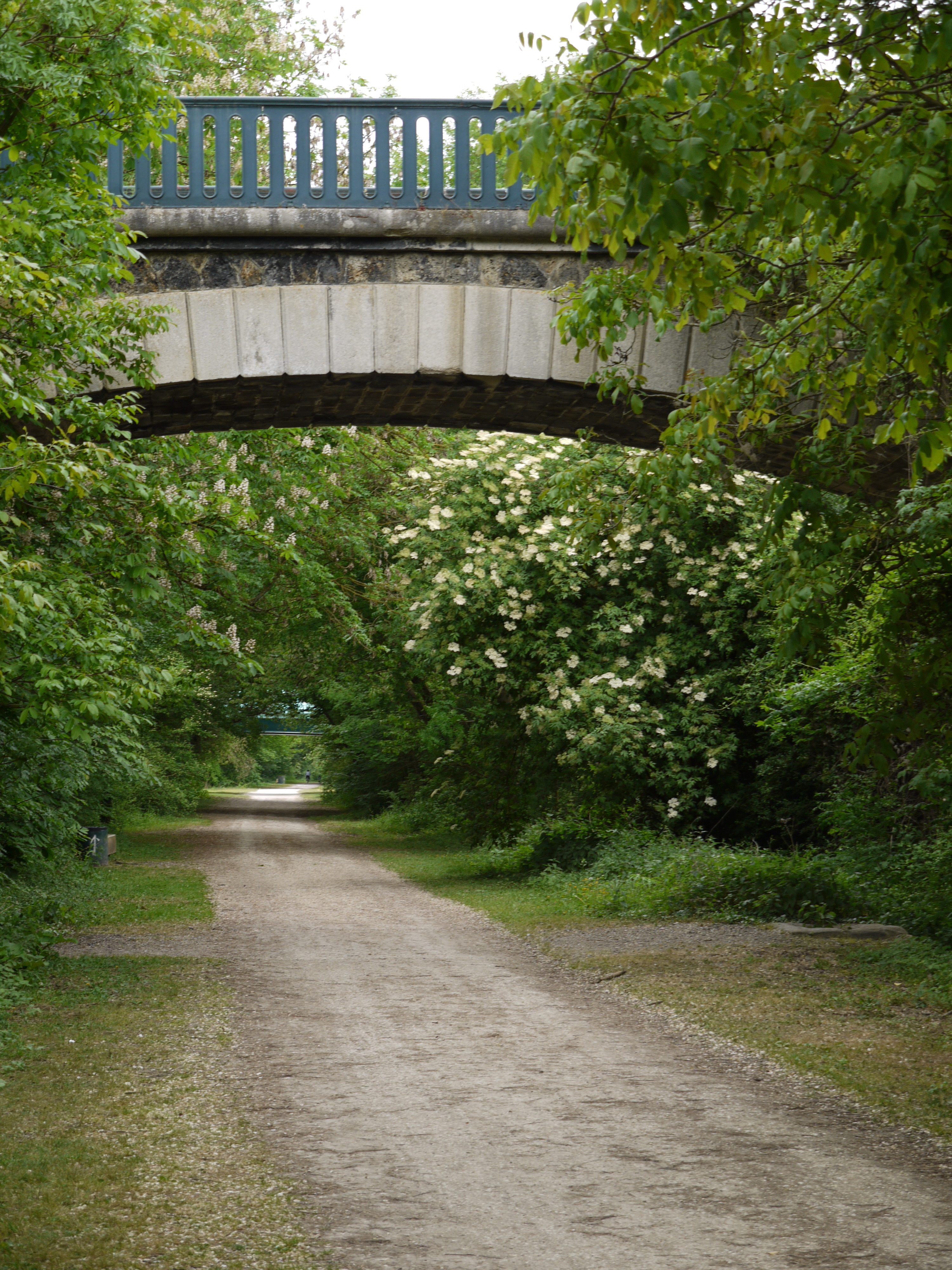 The bikeway "le chemin des Roses" near Brie-Comte-Robert - Grisy Suisnes (Seine et Marne, France). Conversion of the disused railway Ligne de Vincennes